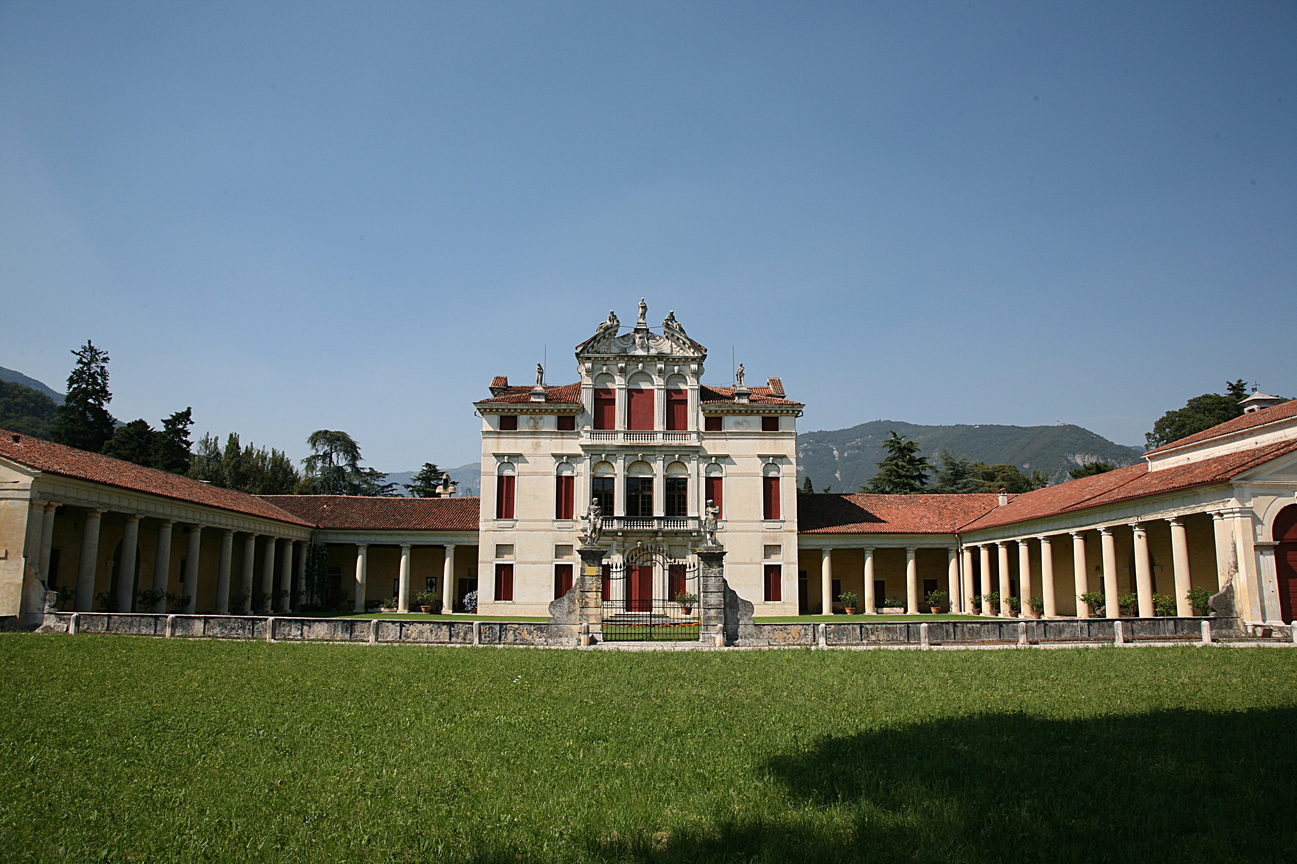 A Villa in Bassano del Grappa. Originally by Andrea Palladio. Brarchesse by him. Central house by B. Longhena